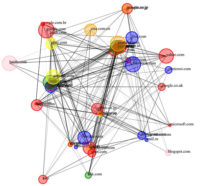 Random Force Directed graph visualisation with popular websites